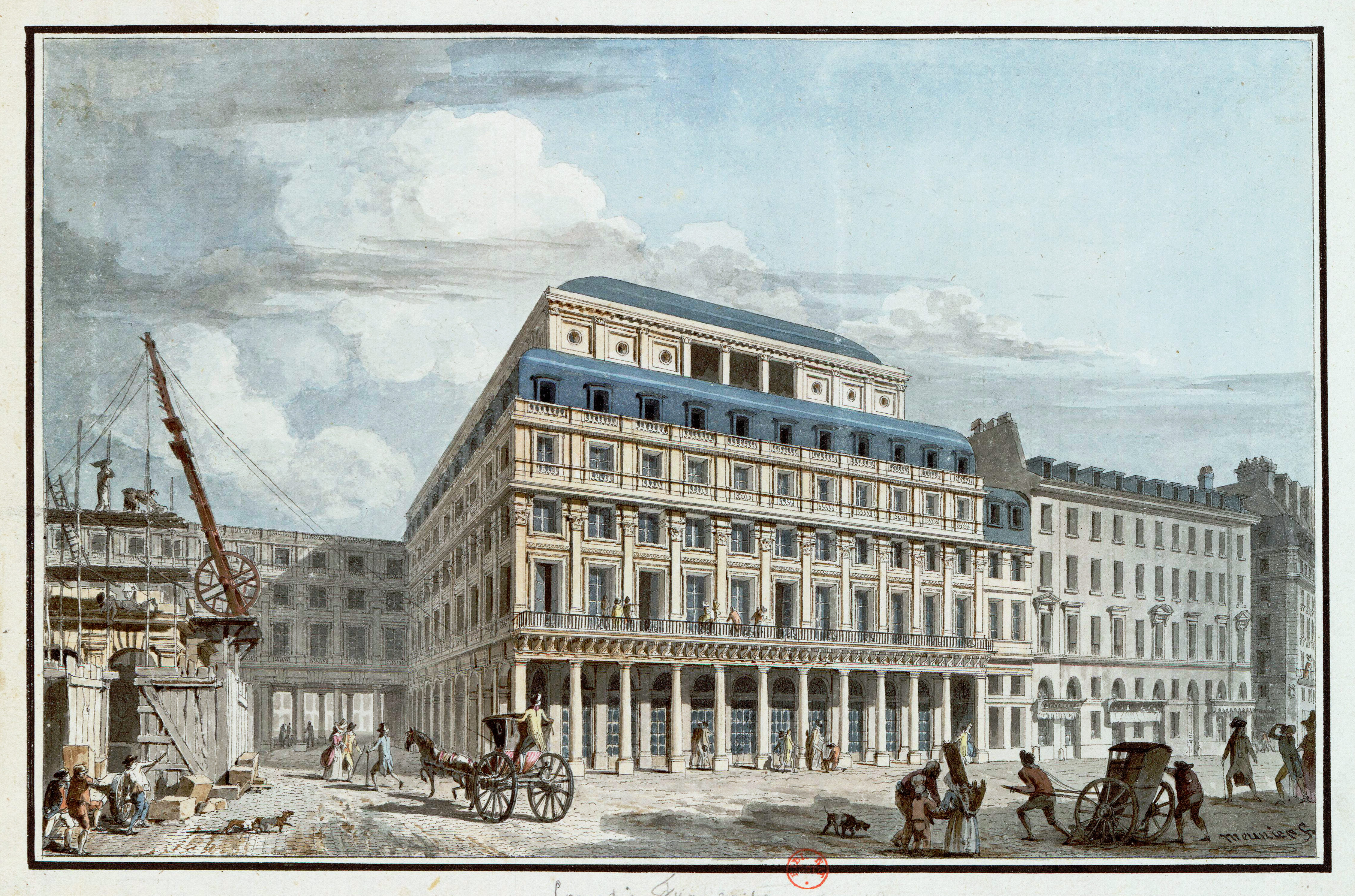 Paris, the Salle Richelieu, as designed by the architect Victor Louis. In 1799 it became the home of the Comédie-Française.